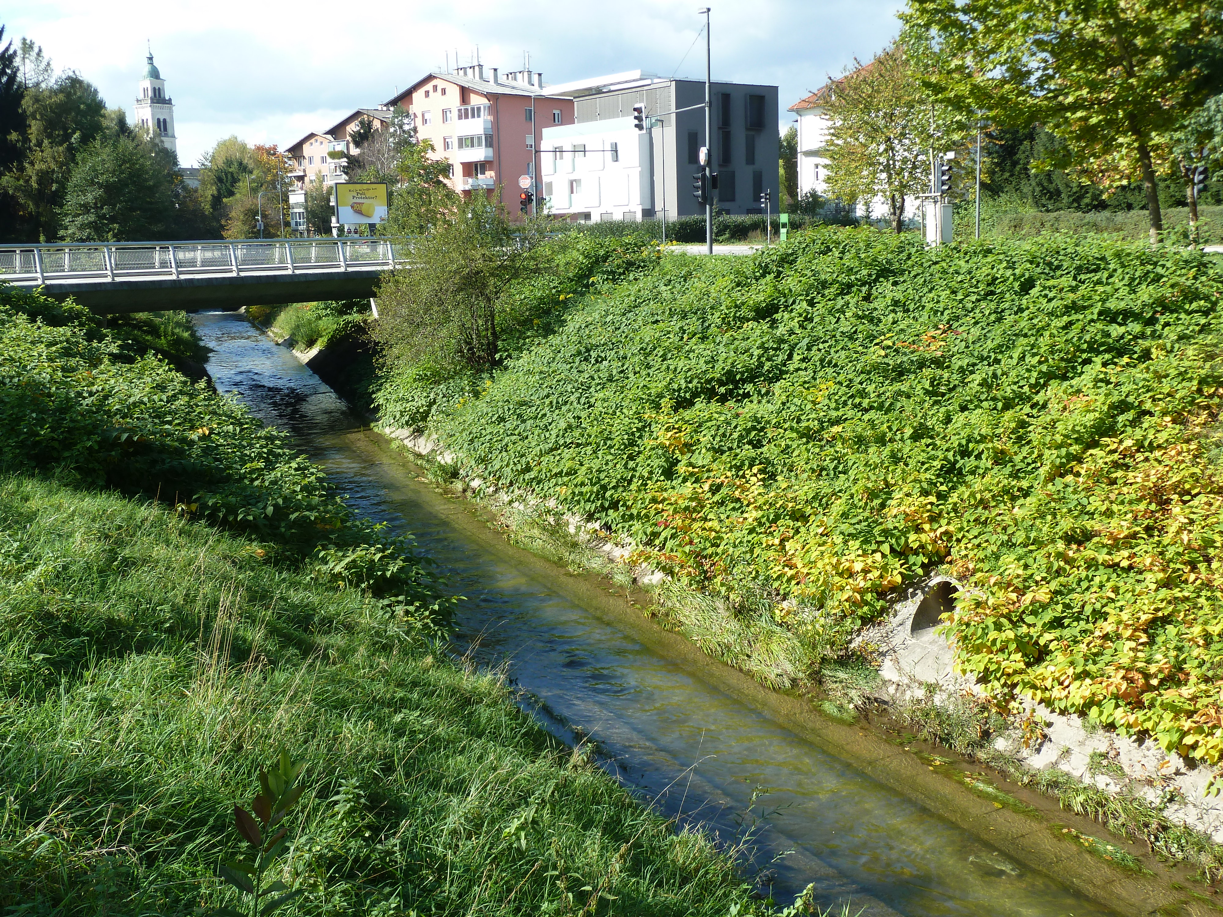 Mestna Gradaščica at the Koper Street–Jama Street crossroad in the Vič District, Ljubljana